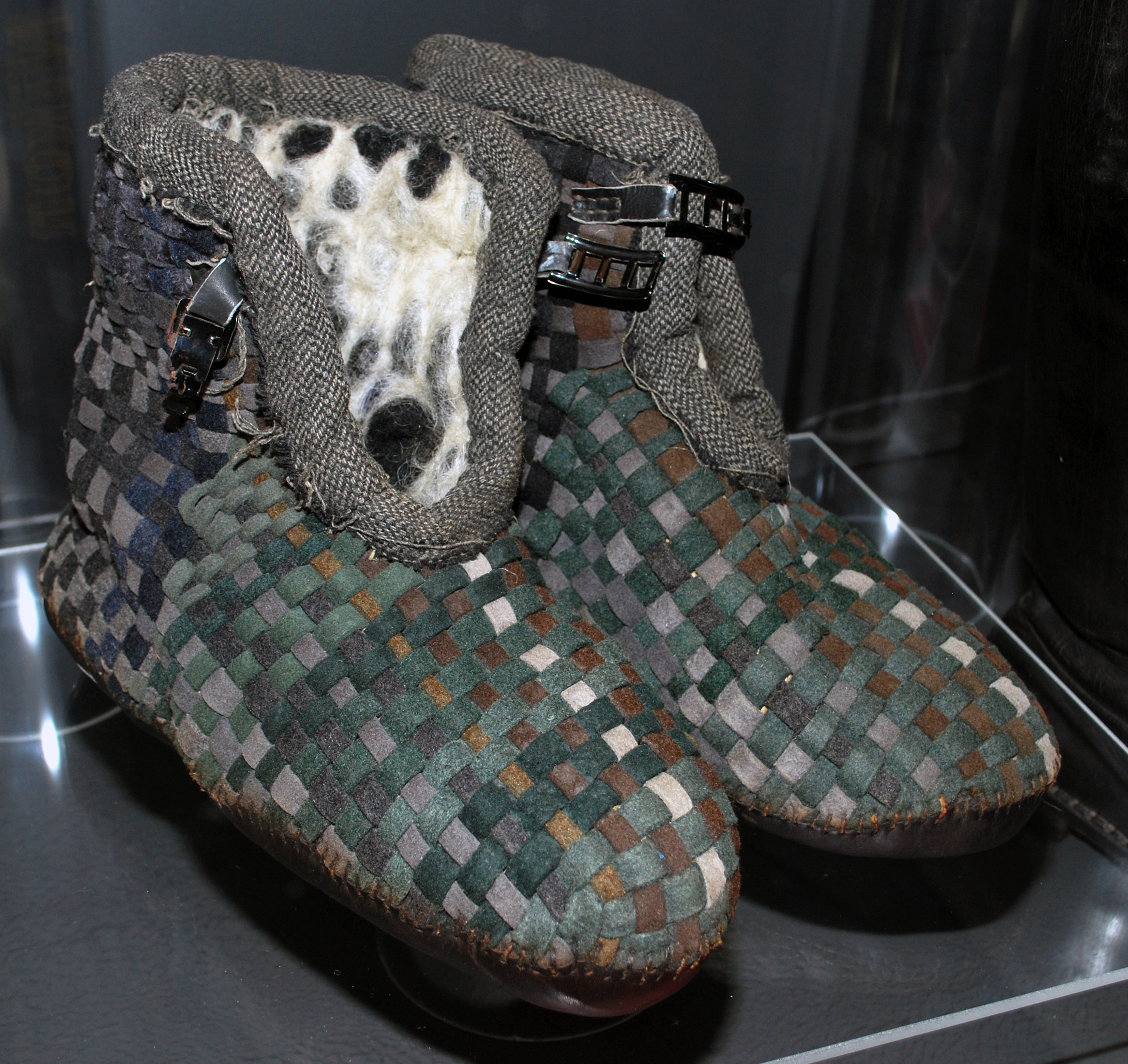 Valachian boots "kocury" from I quarter of XX century.